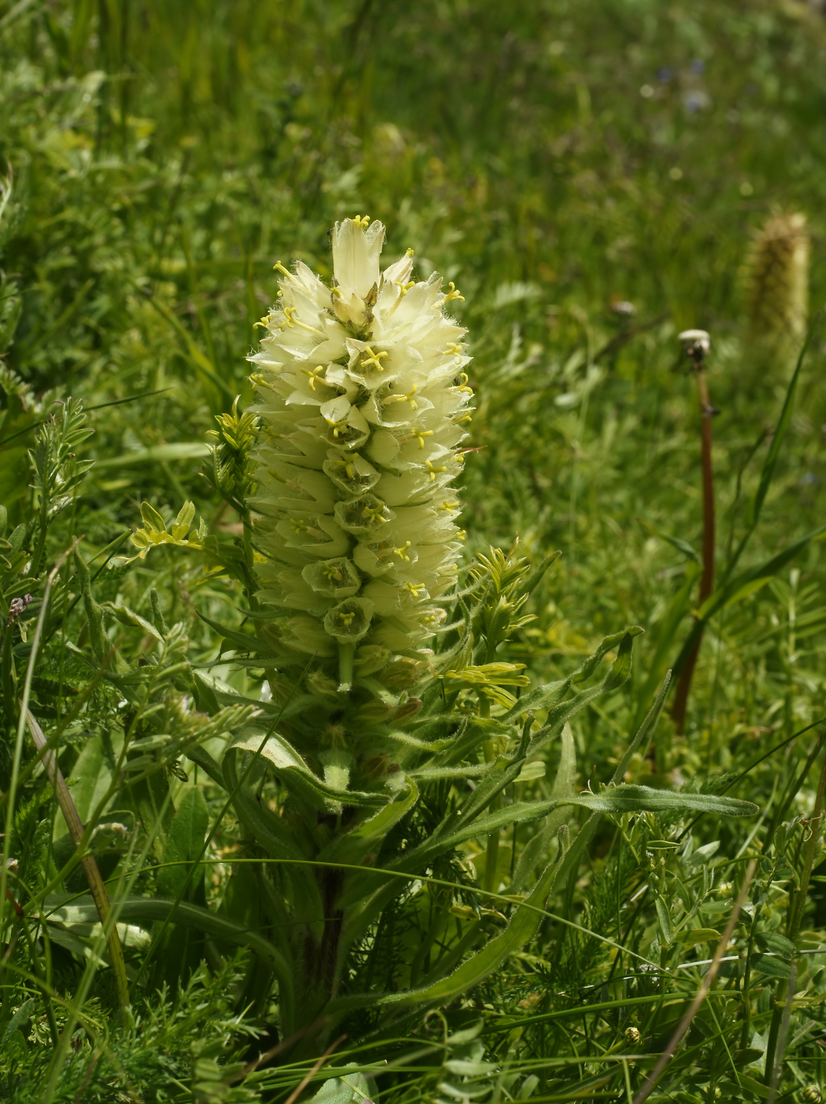 Bellflower at the Swiss/Italian border at the Grand Saint Bernard Pass.